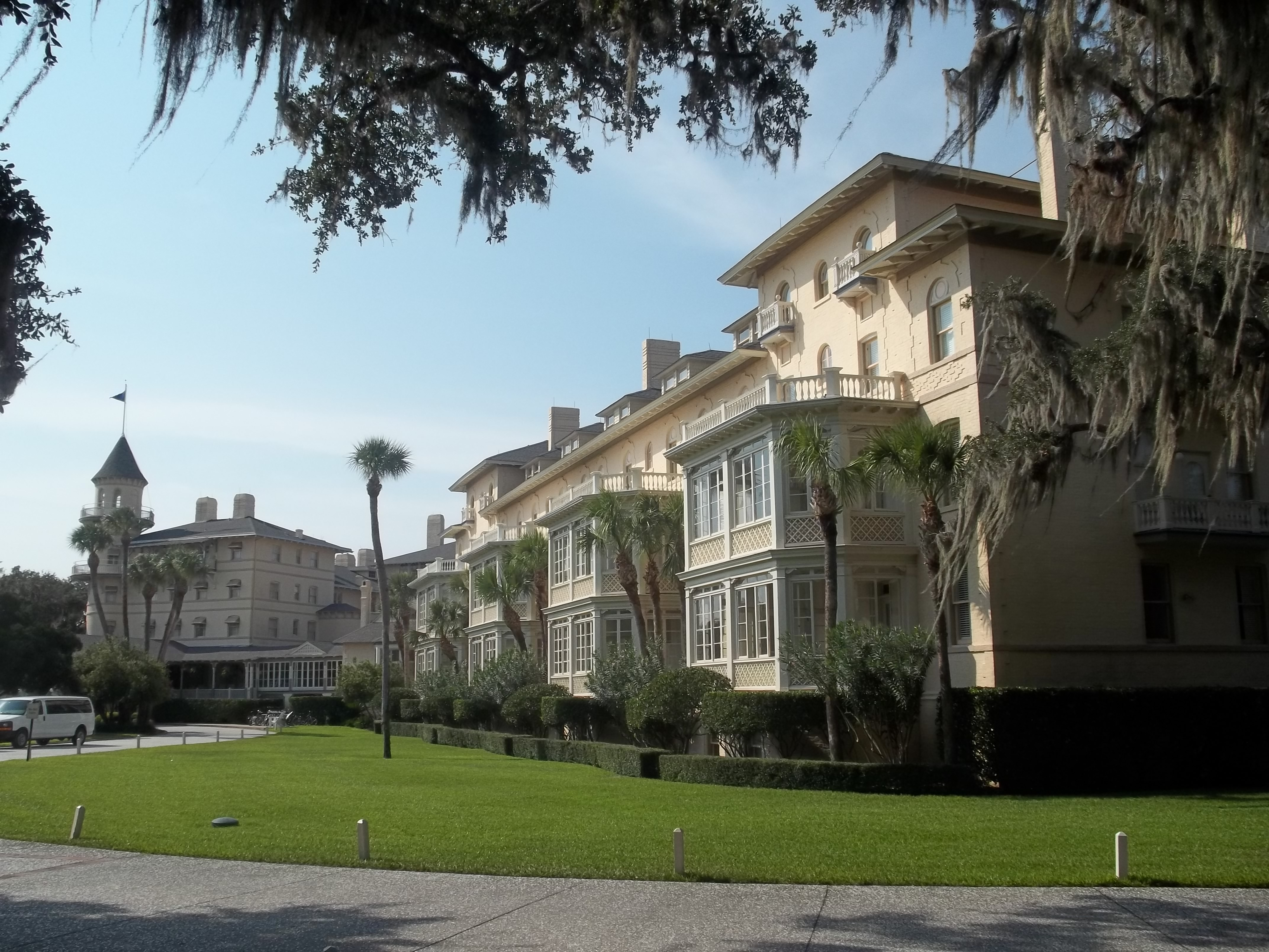 Jekyll Island: Old clubhouse, now a hotel